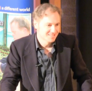 Roland Benedikter, Public Figure, in July 2011, Canterbury, UK